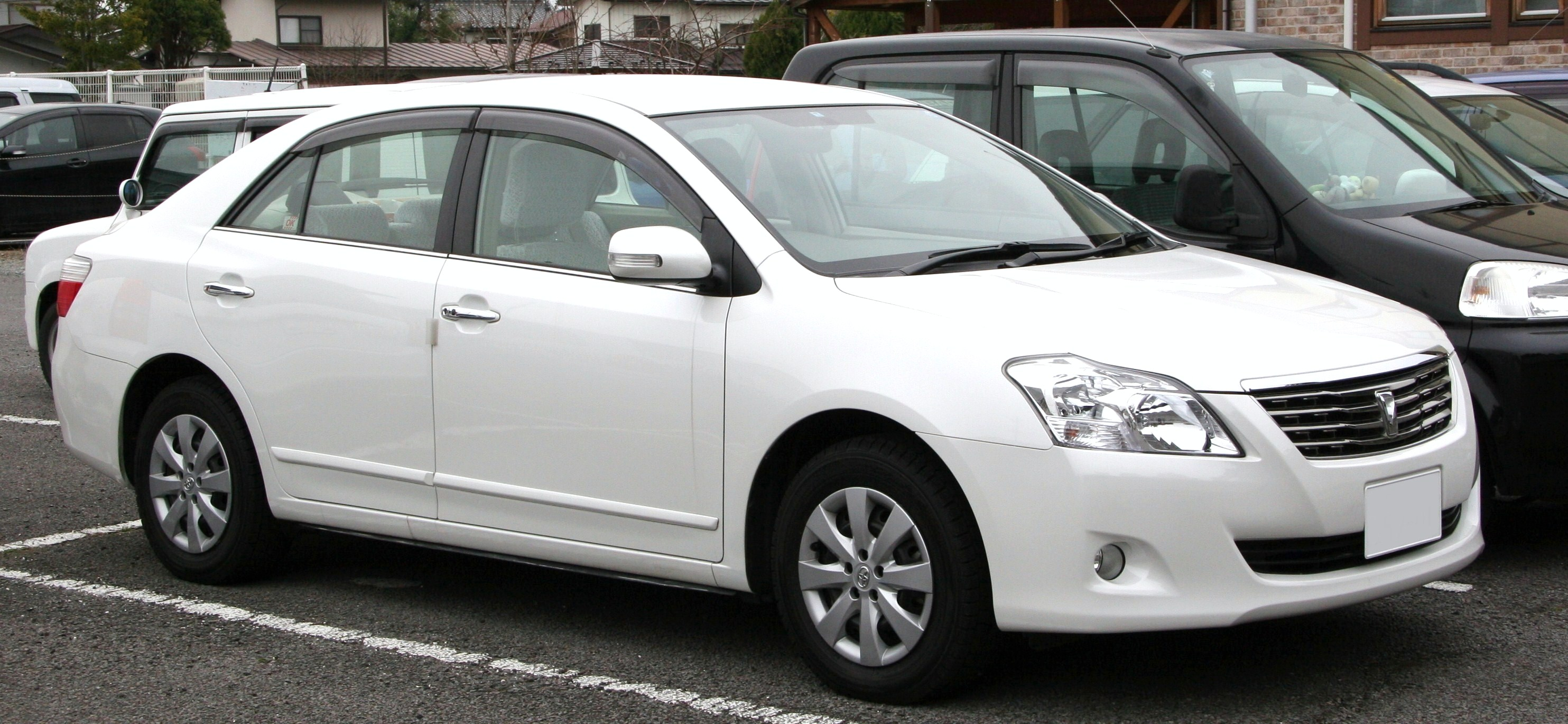 Toyota Premio